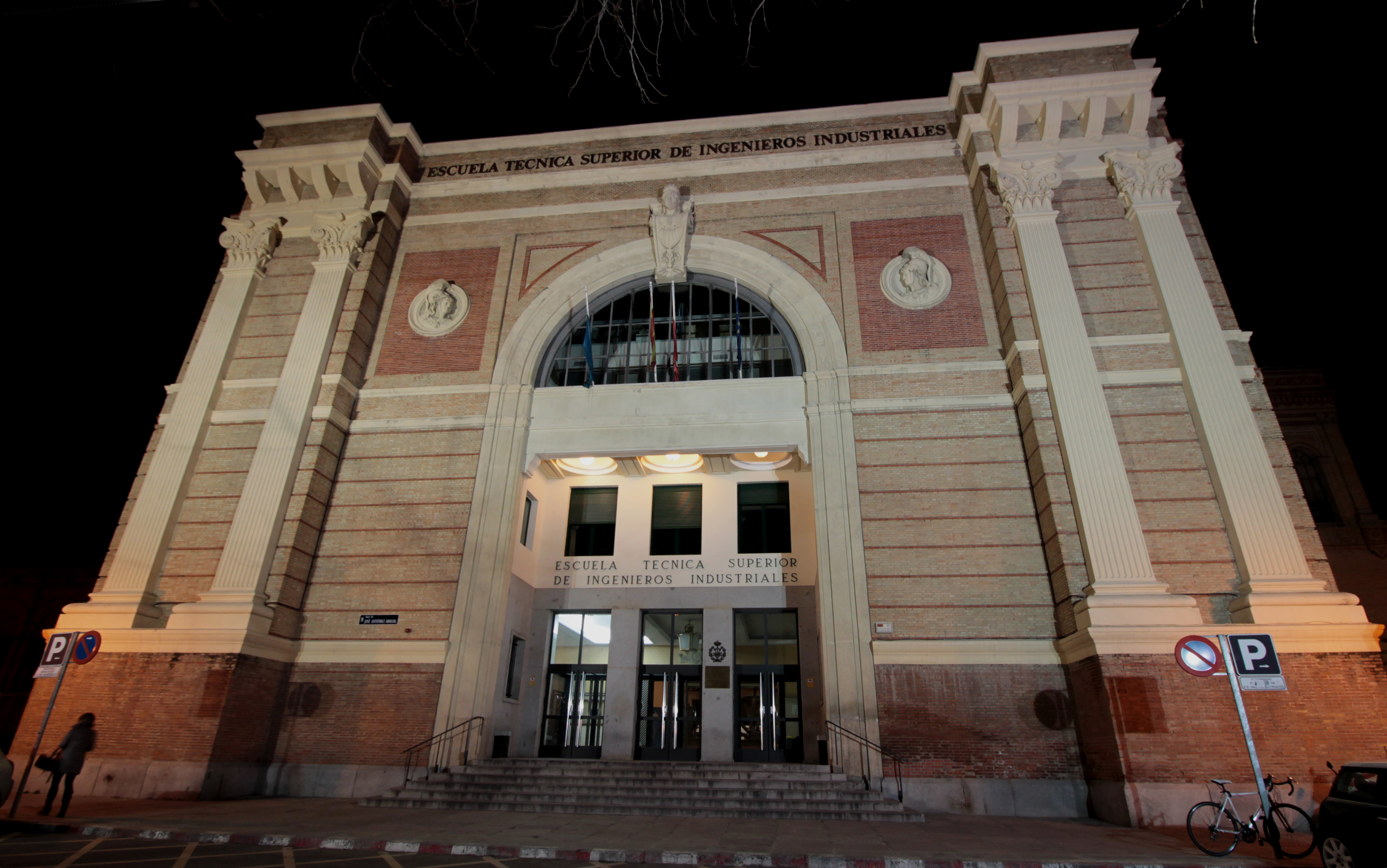 Entrance of the School of Industrial Engineering of the Technical University of Madrid (Spain).